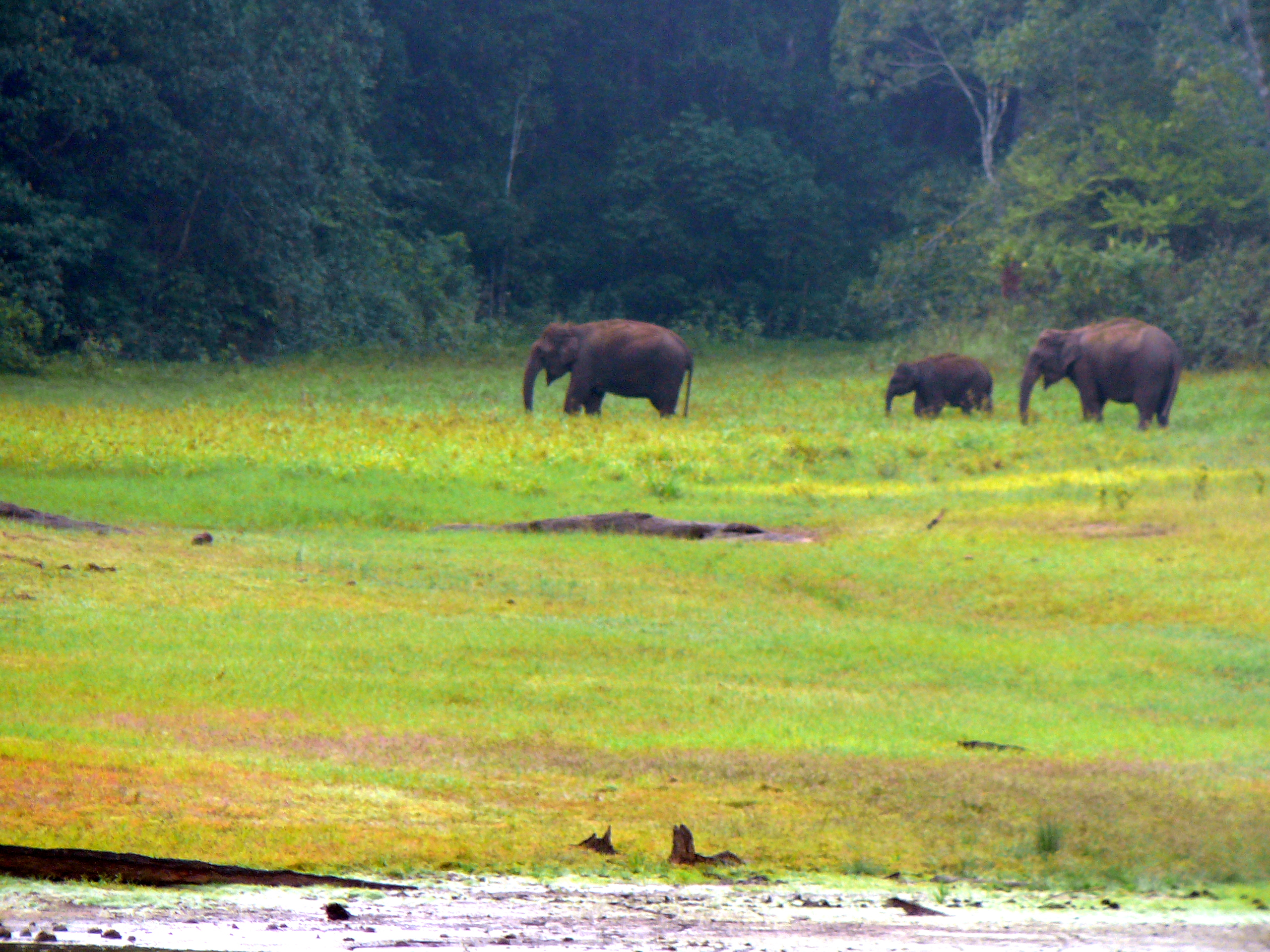 Three elephants on a green field in front of the forest. Thekkady, Kerala, India.P1030139